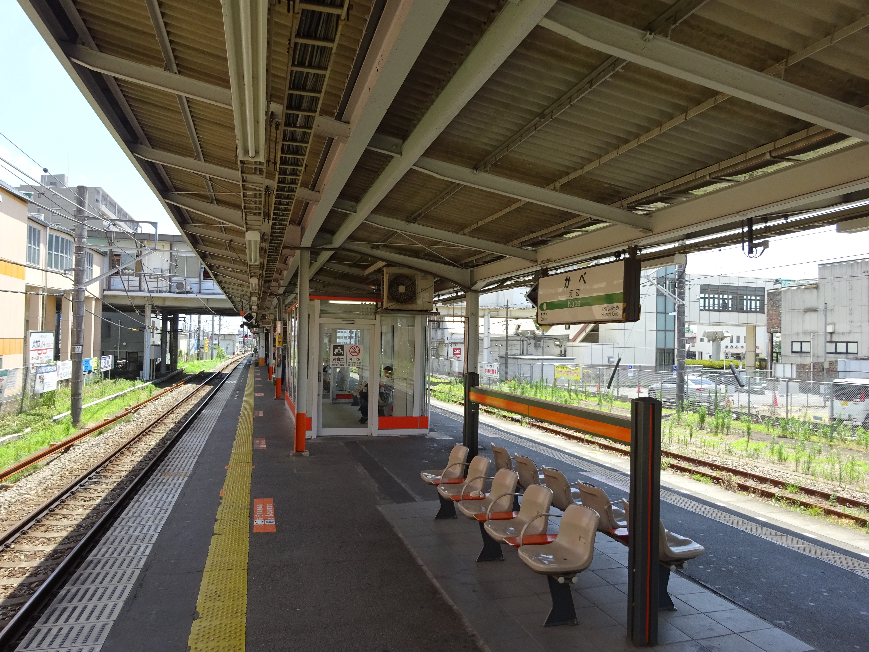 The platform at Kabe Station in Tokyo, Japan